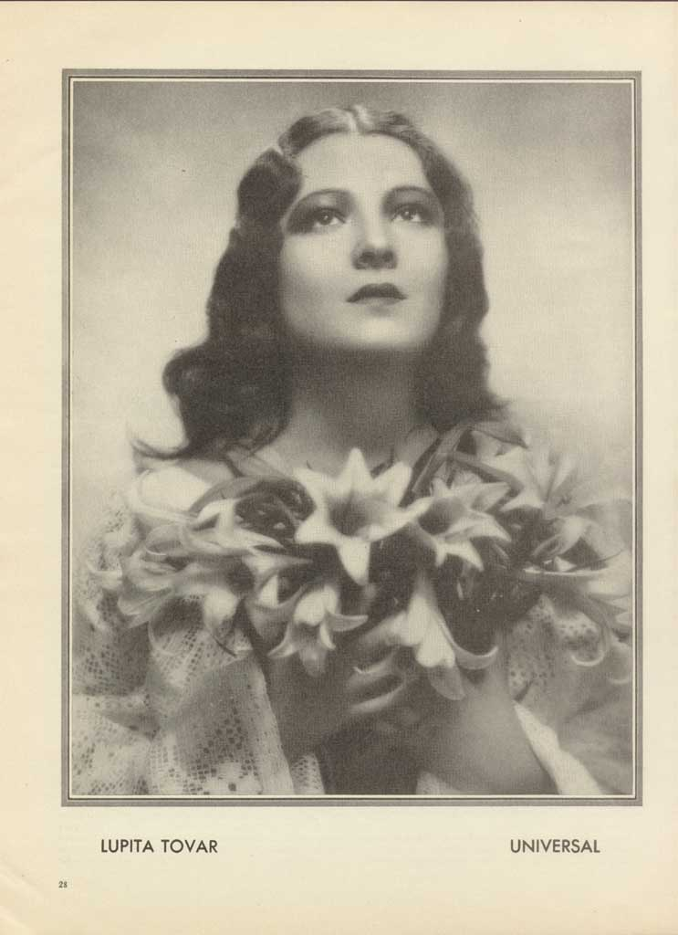 Publicity photo of Lupita Tovar for Argentinean Magazine. (Printed in USA)